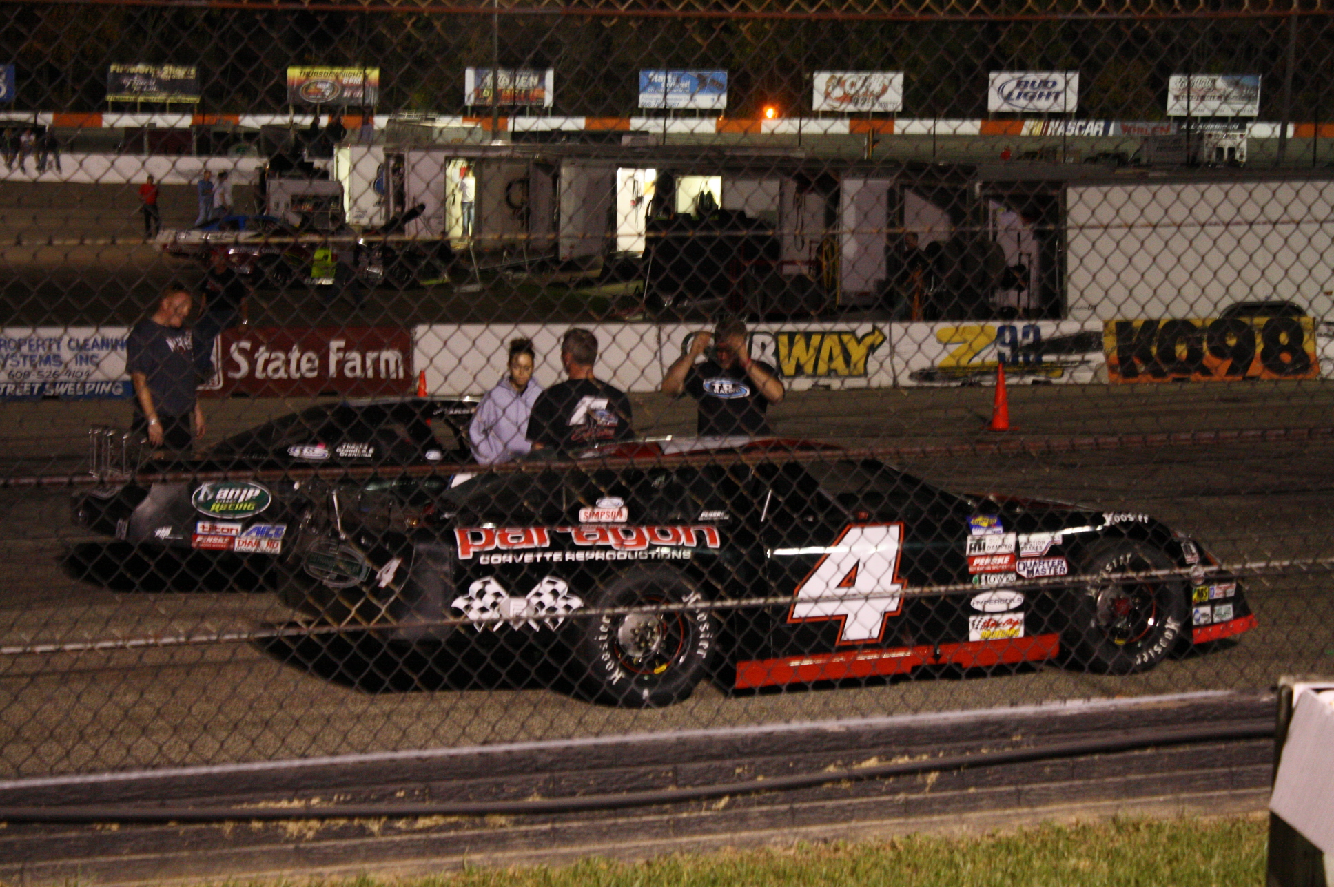 Future NASCAR driver Erik Jones #4 prior to the start at his ASA North Late Model win at the Oktoberfest Race at La Crosse Fairgrounds Speedway.